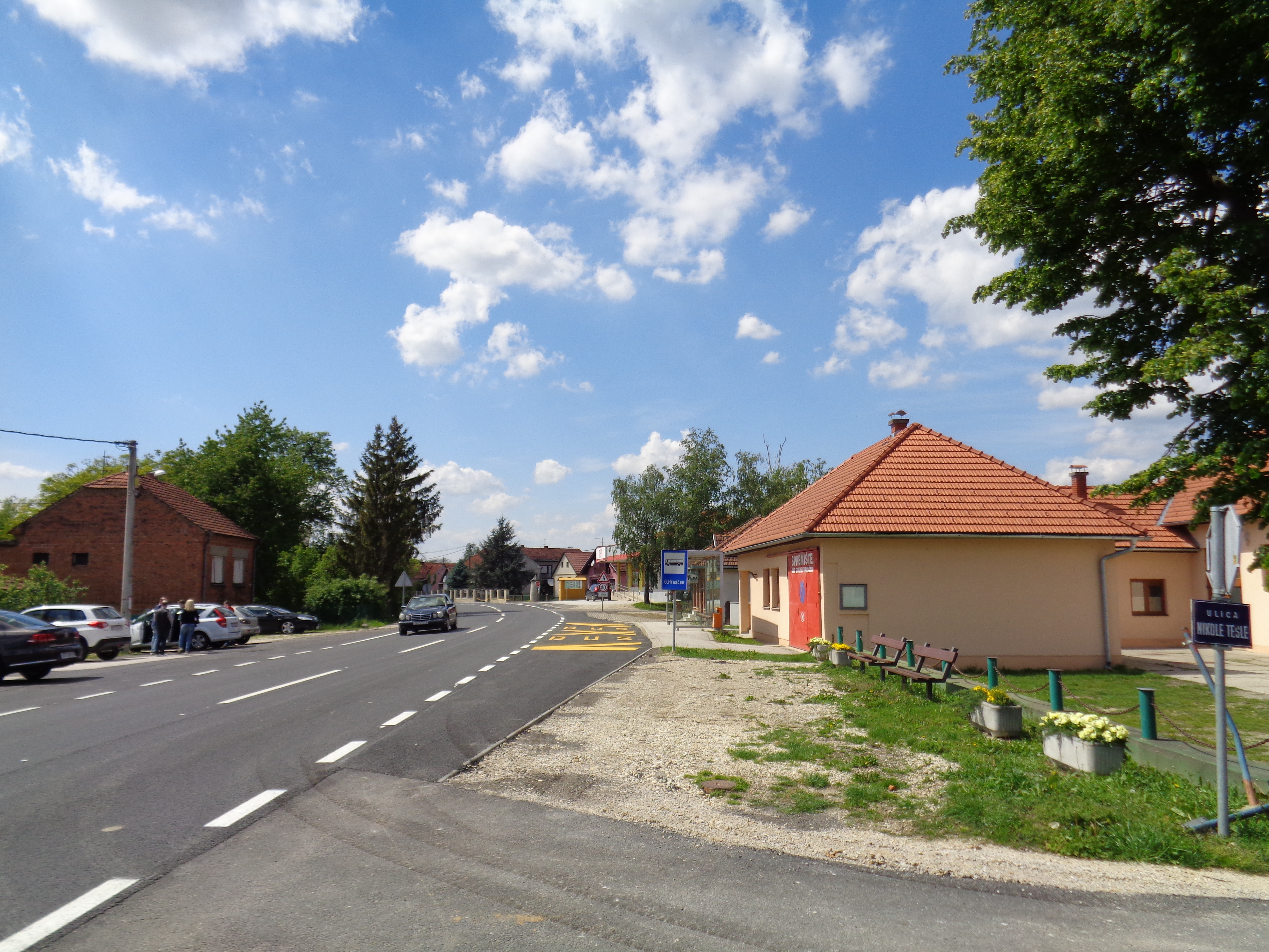 Gornji Hrašćan (Međimurje County, Croatia) - village centre